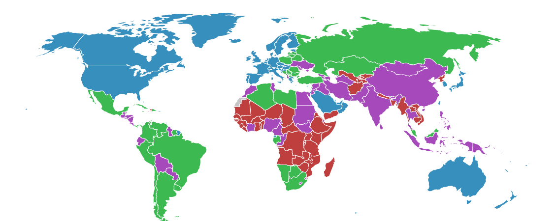 Original map showing gaps between countries, by income (GNI per capita, 2006).